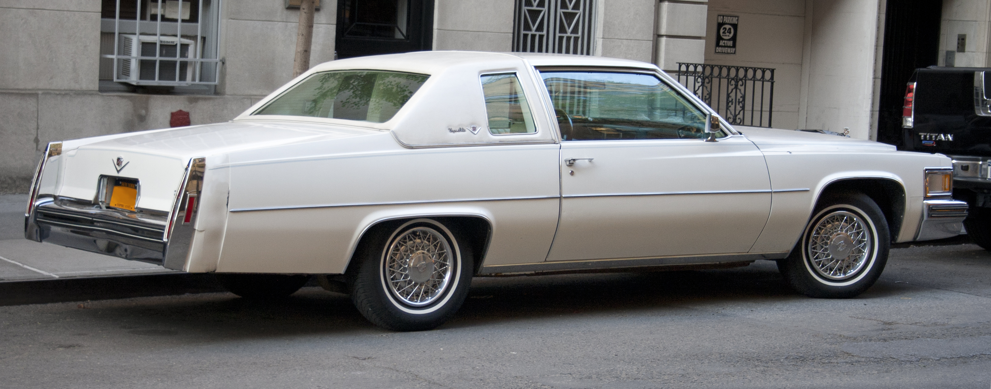 1979 Cadillac Coupé De Ville, NYC